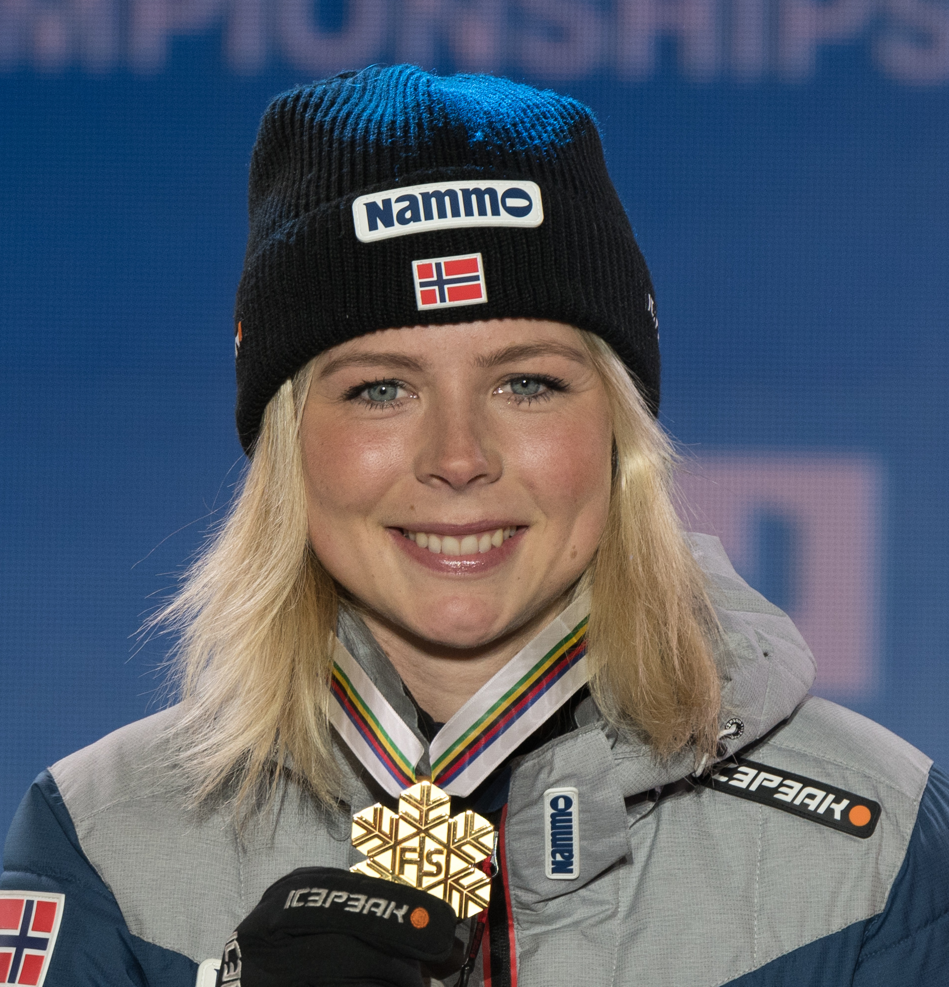 FIS Nordic World Ski Championships Seefeld 2019 - Medal Ceremony at the Medal Plaza. Picture shows Katharina Althaus (GER), Maren Lundby (NOR), Daniela Iraschko-Stolz (AUT).